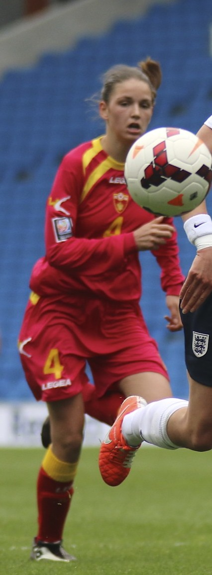 Ellen White of England and Maja Micunović of Montenegro